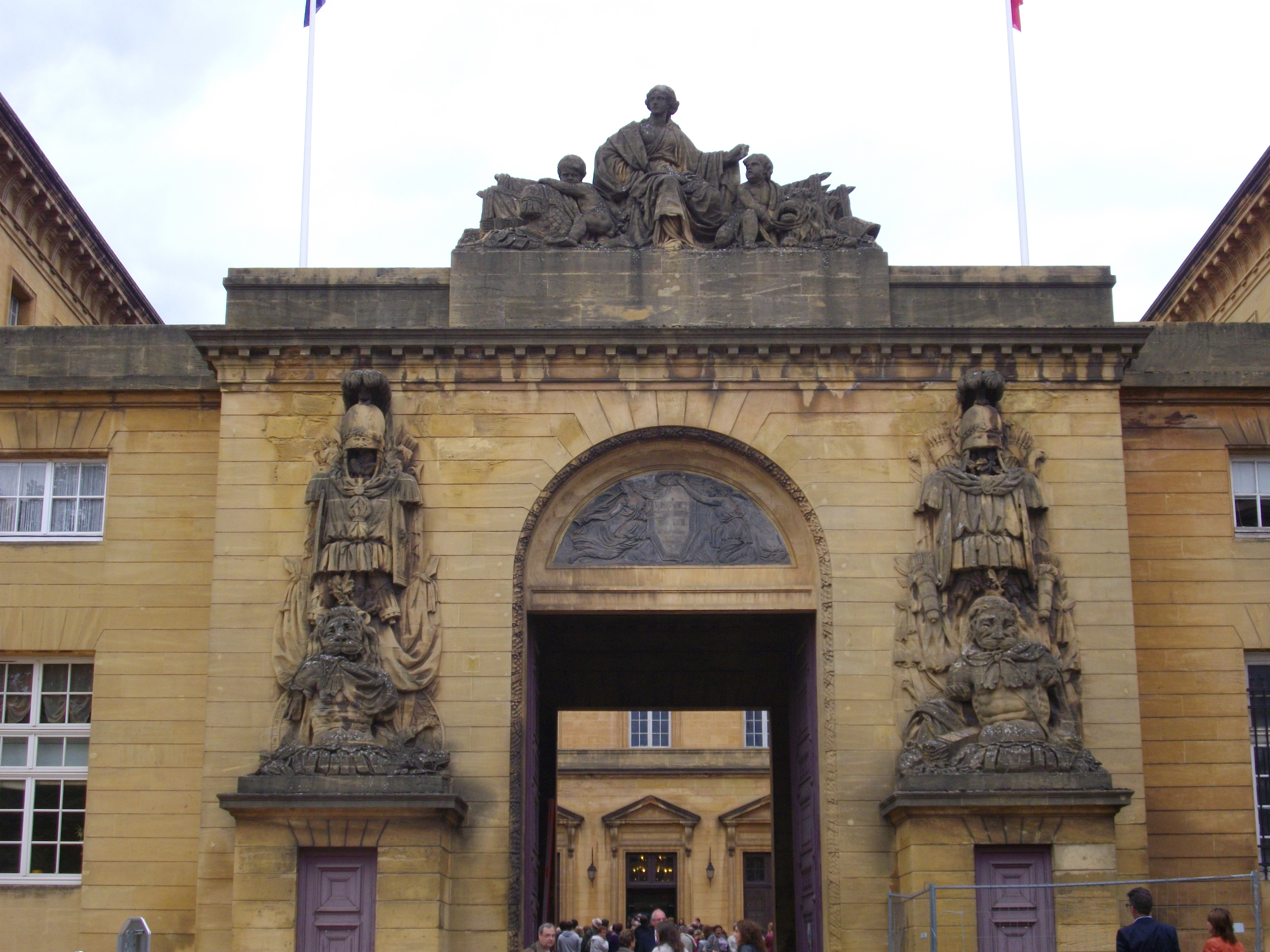 Metz courthouse (Moselle, France) ; portal .